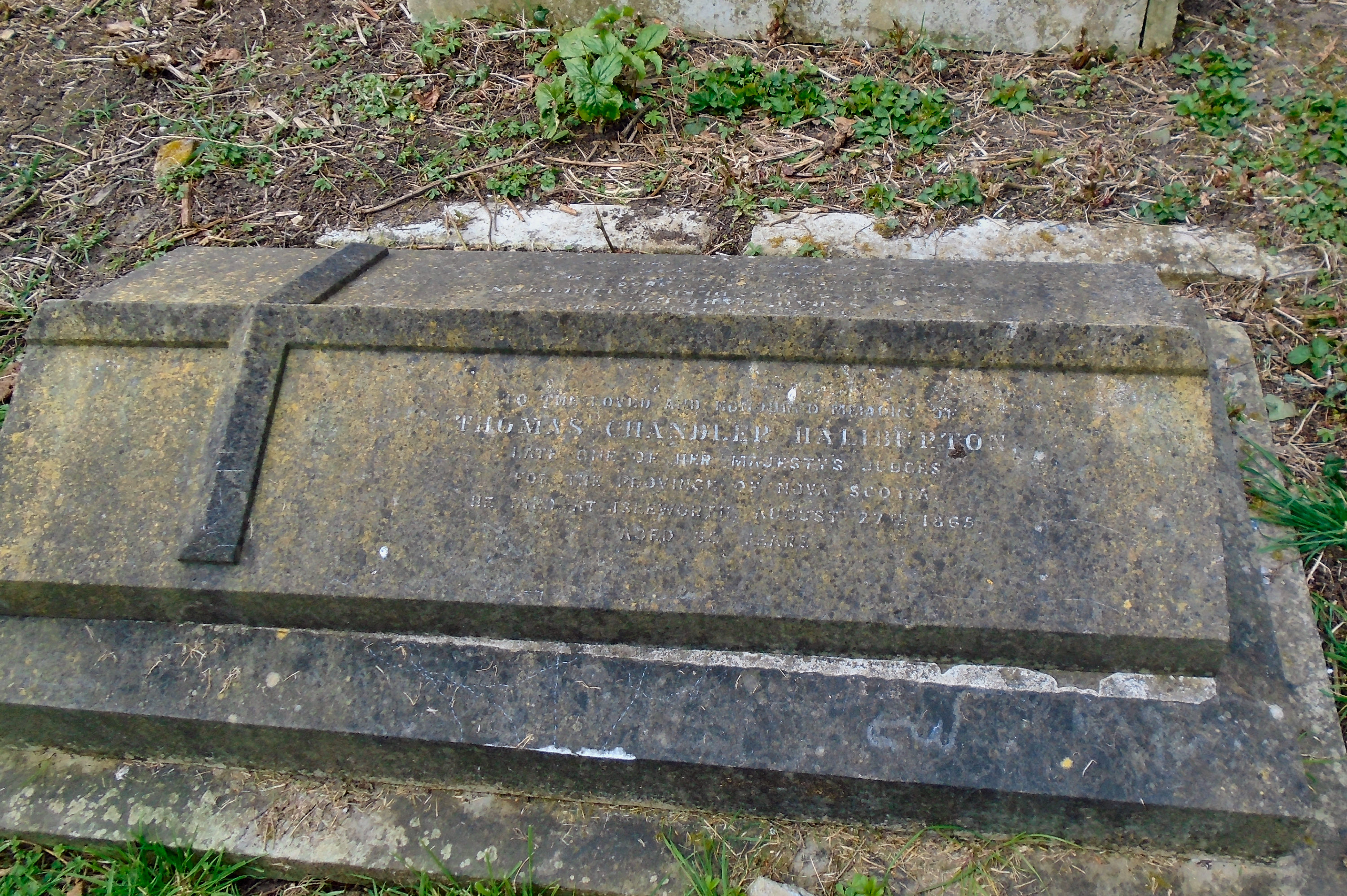 Isleworth, All Saints churchyard, Thomas Chandler Haliburton tomb